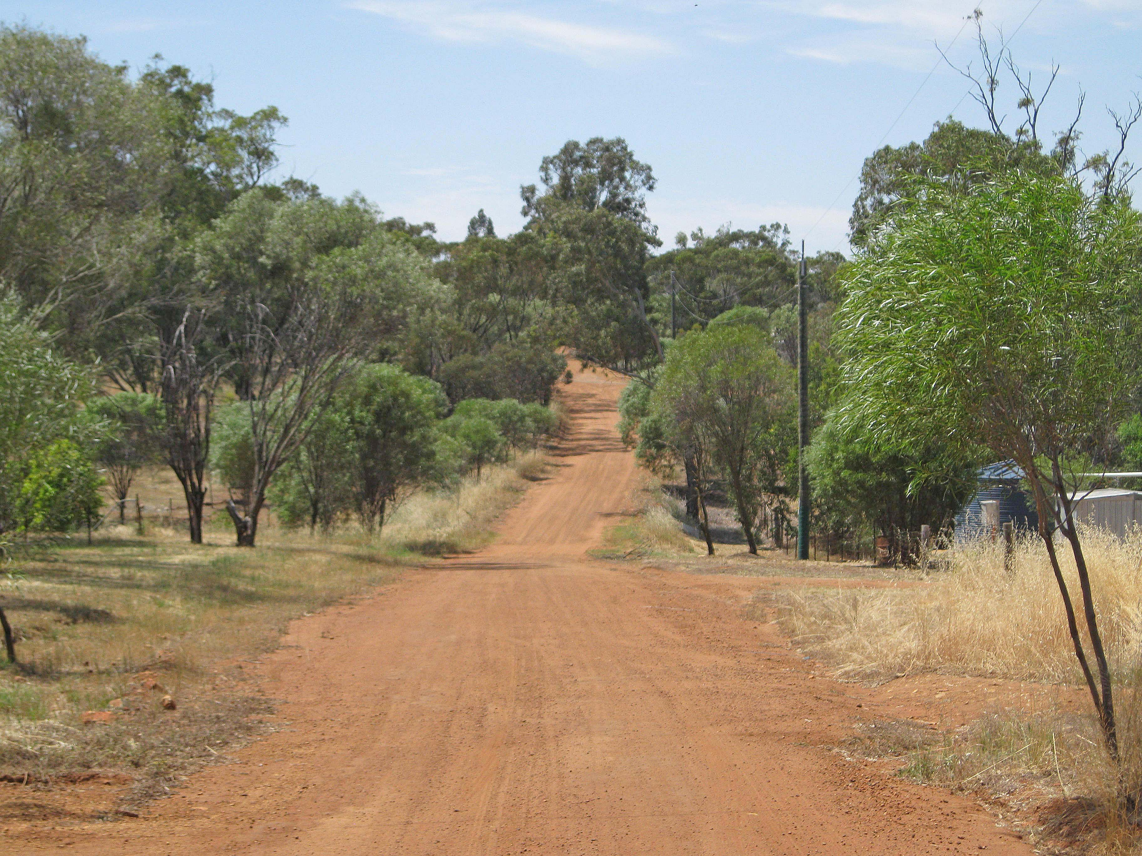 Fitzgerald Terrace, West Toodyay, Western Australia and the gully created by the local stream crossing over it in 2015.